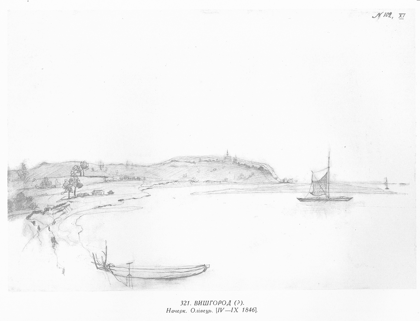 Painting of Taras Shevchenko